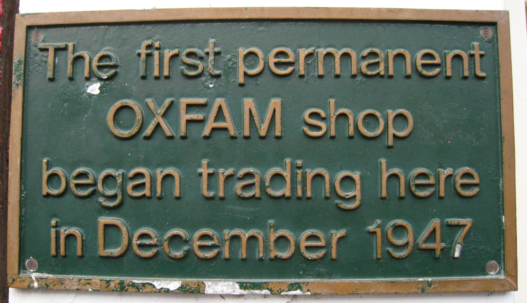 Plaque attached to the first Oxfam shop, opened in December 1947. 17 Broad Street, Oxford, England.